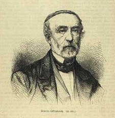 Adolph Theodor Thomsen(-Oldenswort) (1814-1891), Danish and later German politician. Xylograph